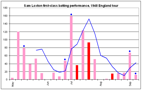 FC batting chart for Sam Loxton during the 1948 tour of England. Blue line is an average for five most recent innings, blue dots are not outs. Bars are runs scored. Pink for FC, red for Tests